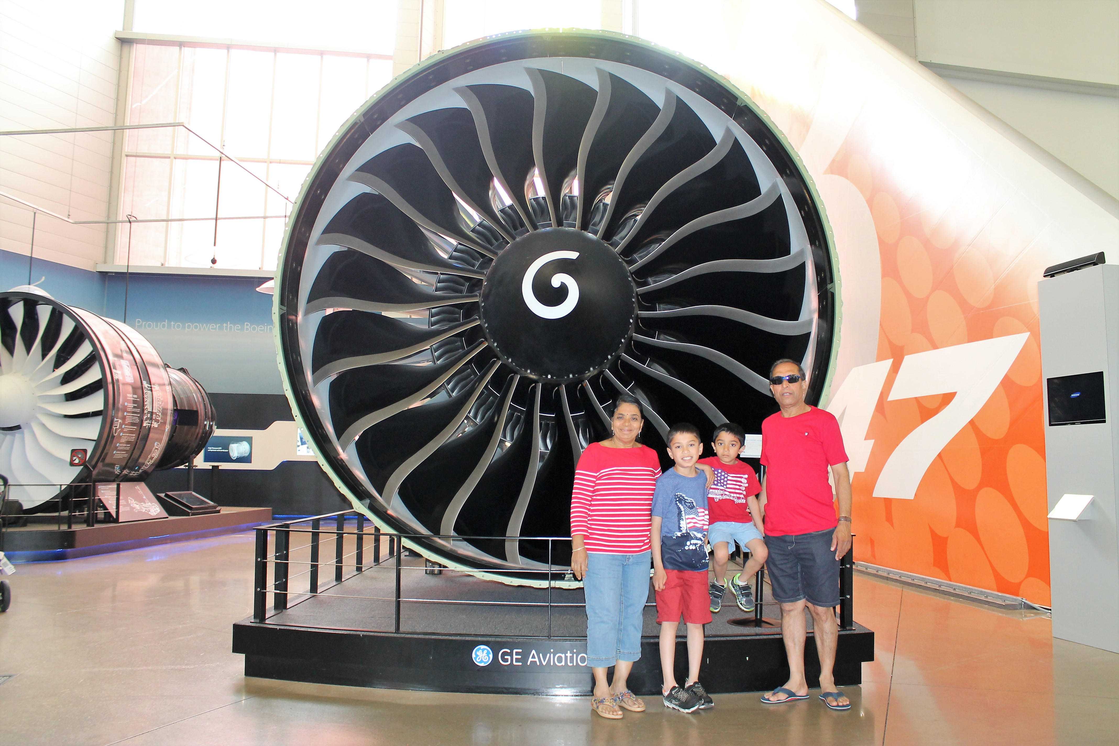 Engine Size Compare to Human Size At Boeing